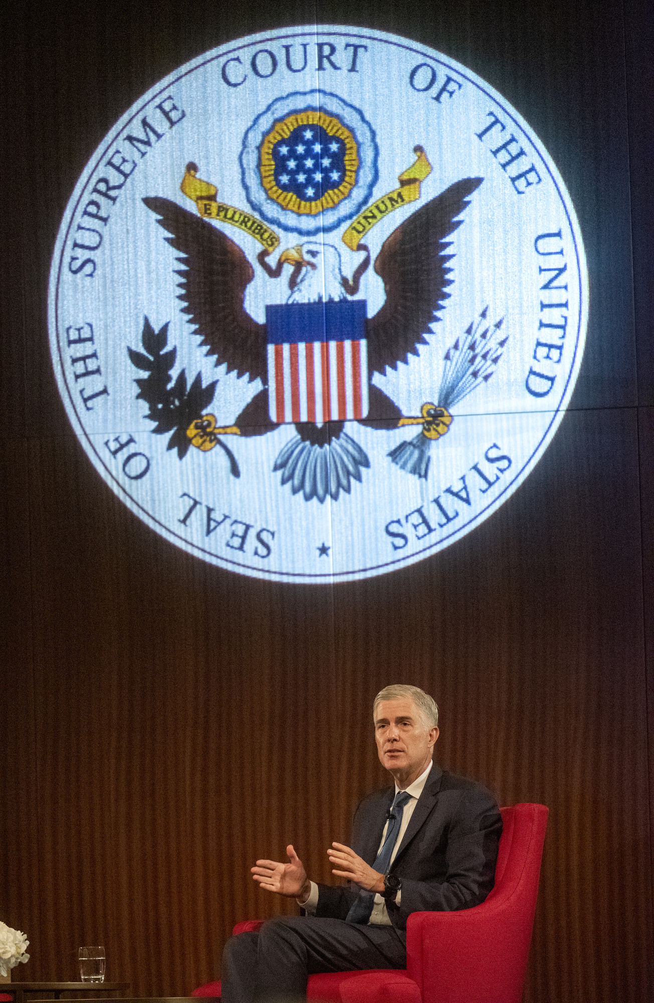 On Thursday, Sept. 19, 2019, U.S. Supreme Court Justice Neil Gorsuch spoke at the LBJ Presidential Library as the sixth annual Tom Johnson lecturer.